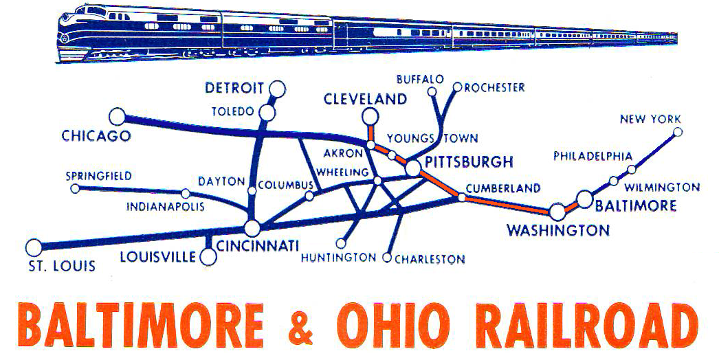 Baltimore and Ohio Railroad (B&O) system map in 1960, with the route of the Cleveland Night Express between Baltimore, and Cleveland, highlighted in orange by JGHowes.